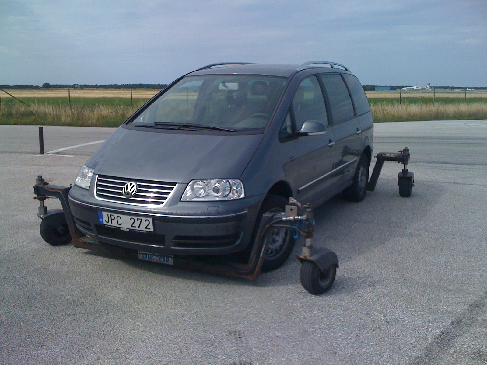 A Volkswagen Sharan with SkidCar system. The SkidCar system simulates slipperiness and skid, and is sometimes used in driver's education. Here parked near Visby Airport.